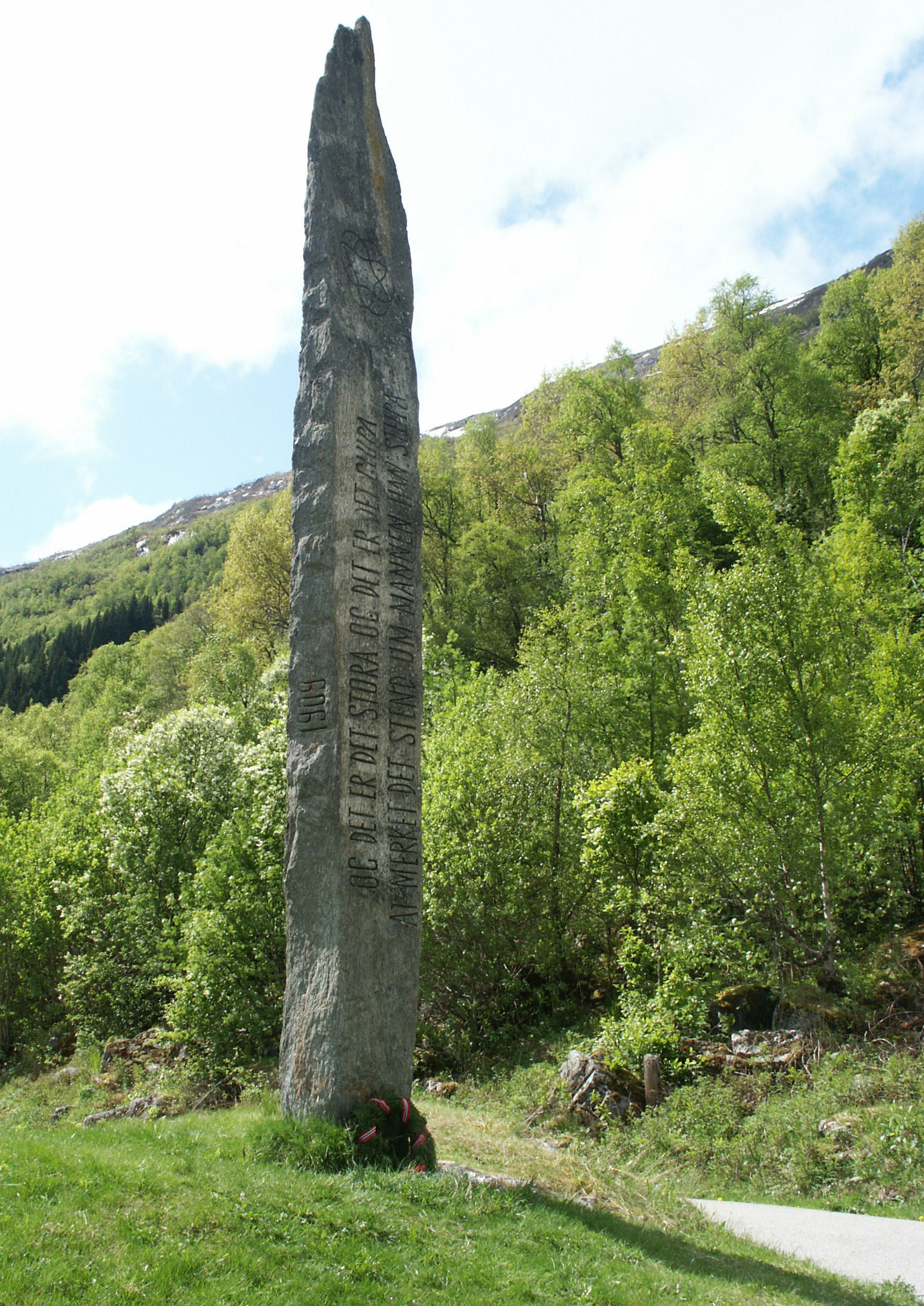 Per Sivle Memorial stone, Stalheim, Voss municipality, Hordaland county.